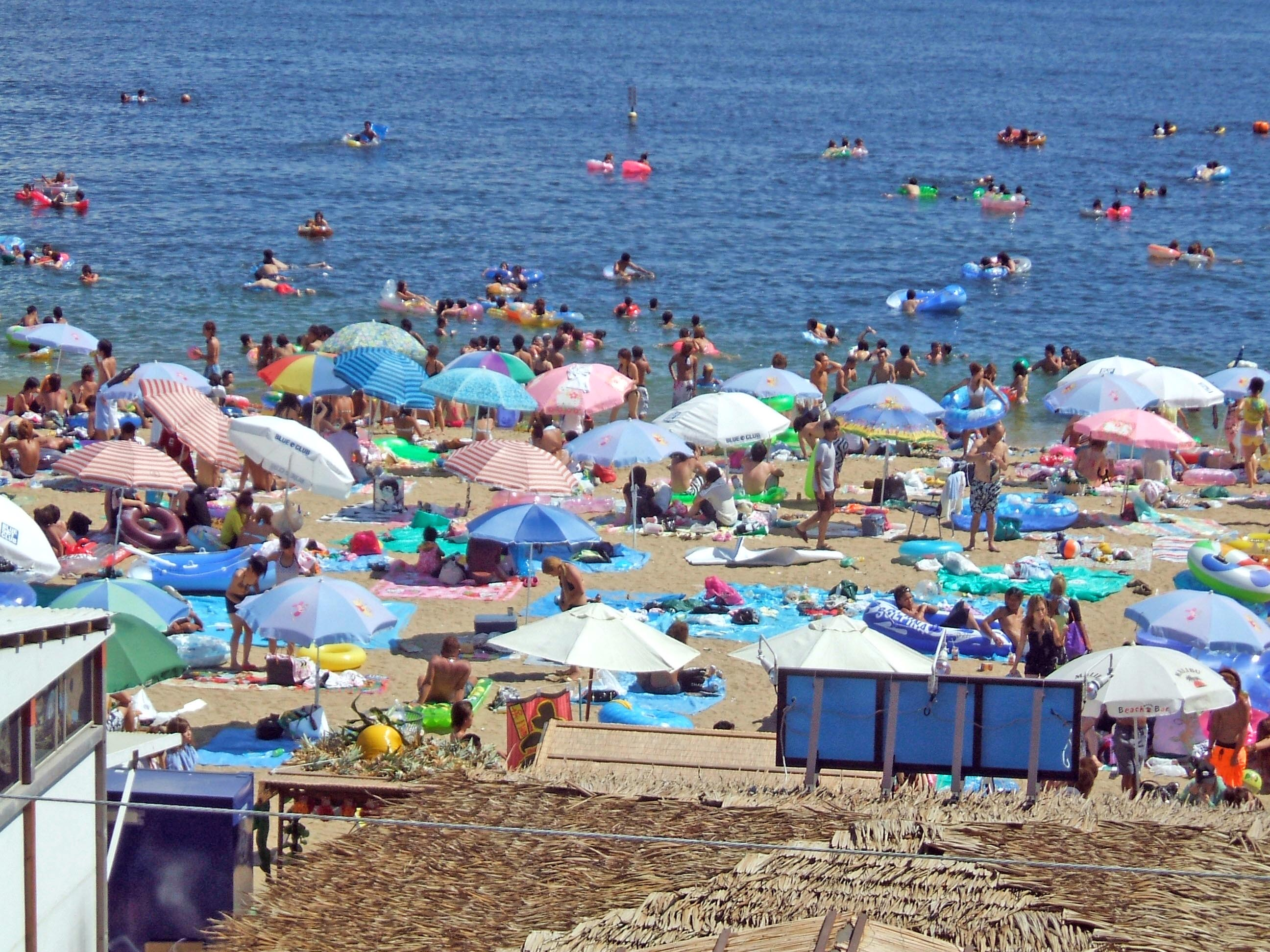 SUMA Beach,Seaside resort in Japan.